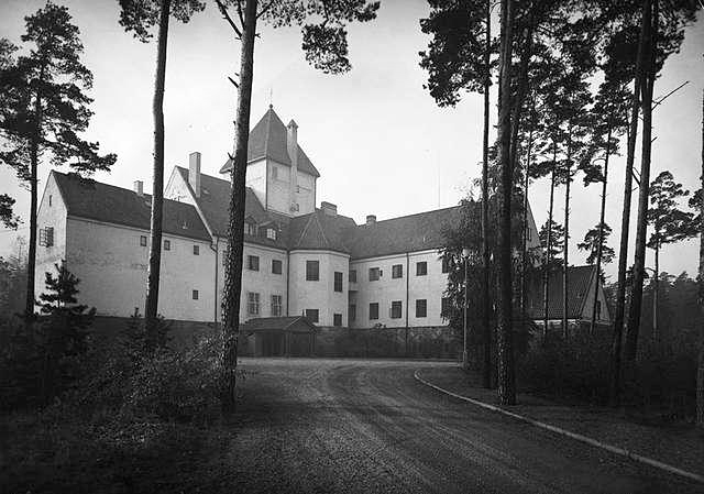 The mansion Villa Grande in Oslo, whilst in use as Nazi collaborator Vidkun Quisling's residence.